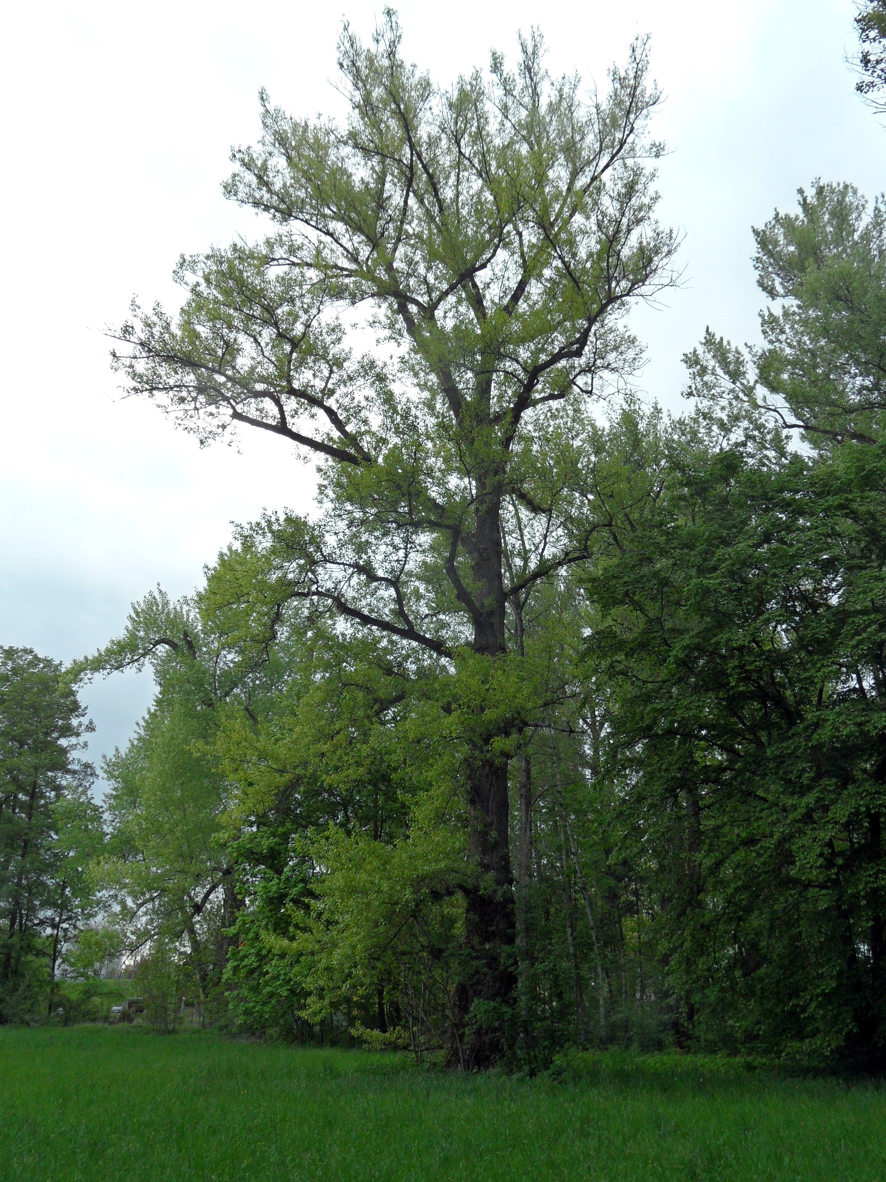 Poděbrady, Famous tree Populus nigra�, near Labe. Overview from South-East. Nymburk District, the Czech Republic.�